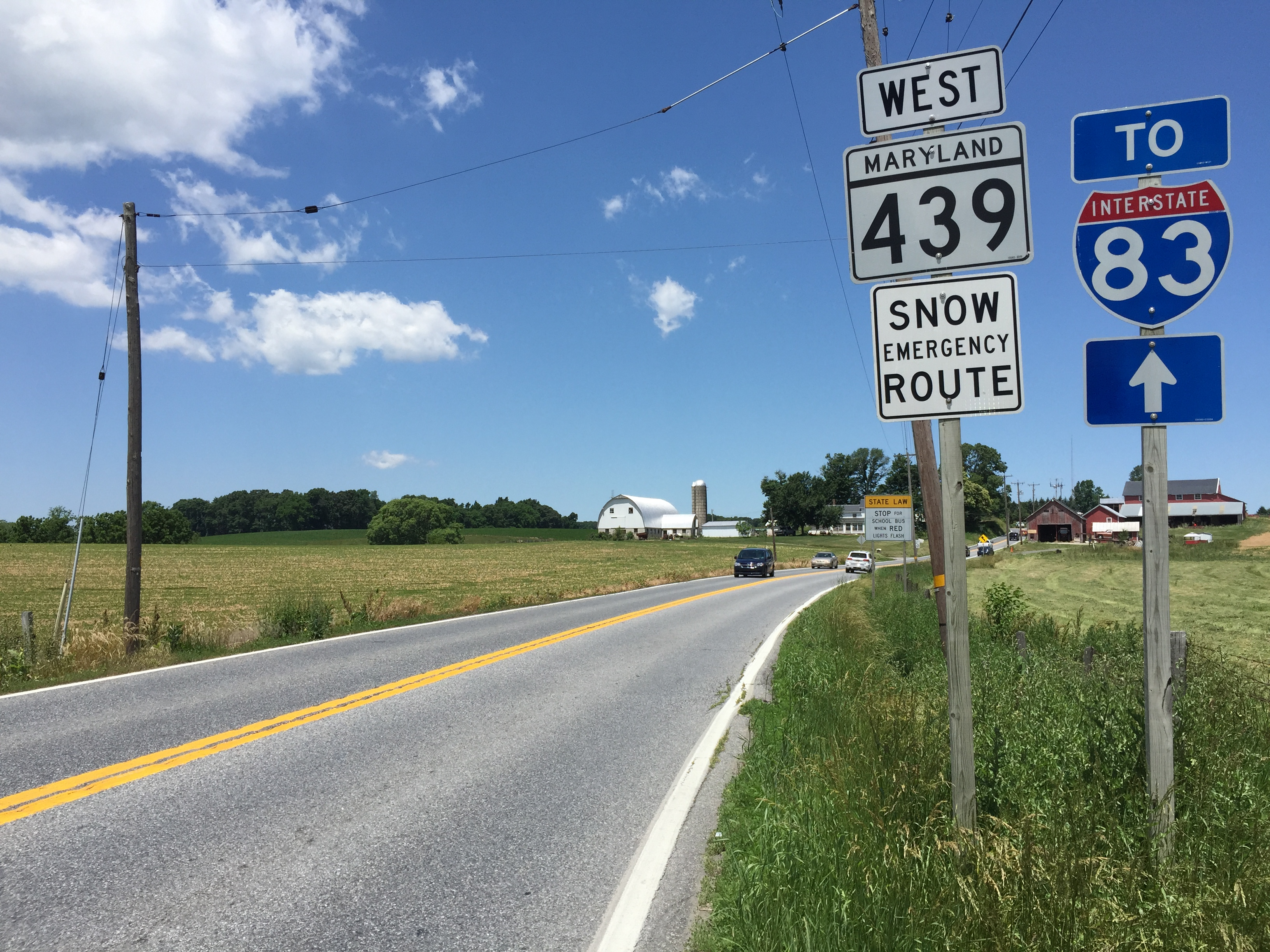 View west along Maryland State Route 439 (Old York Road) at Maryland State Route 23 (Norrisville Road) in Shawsville, Harford County, Maryland